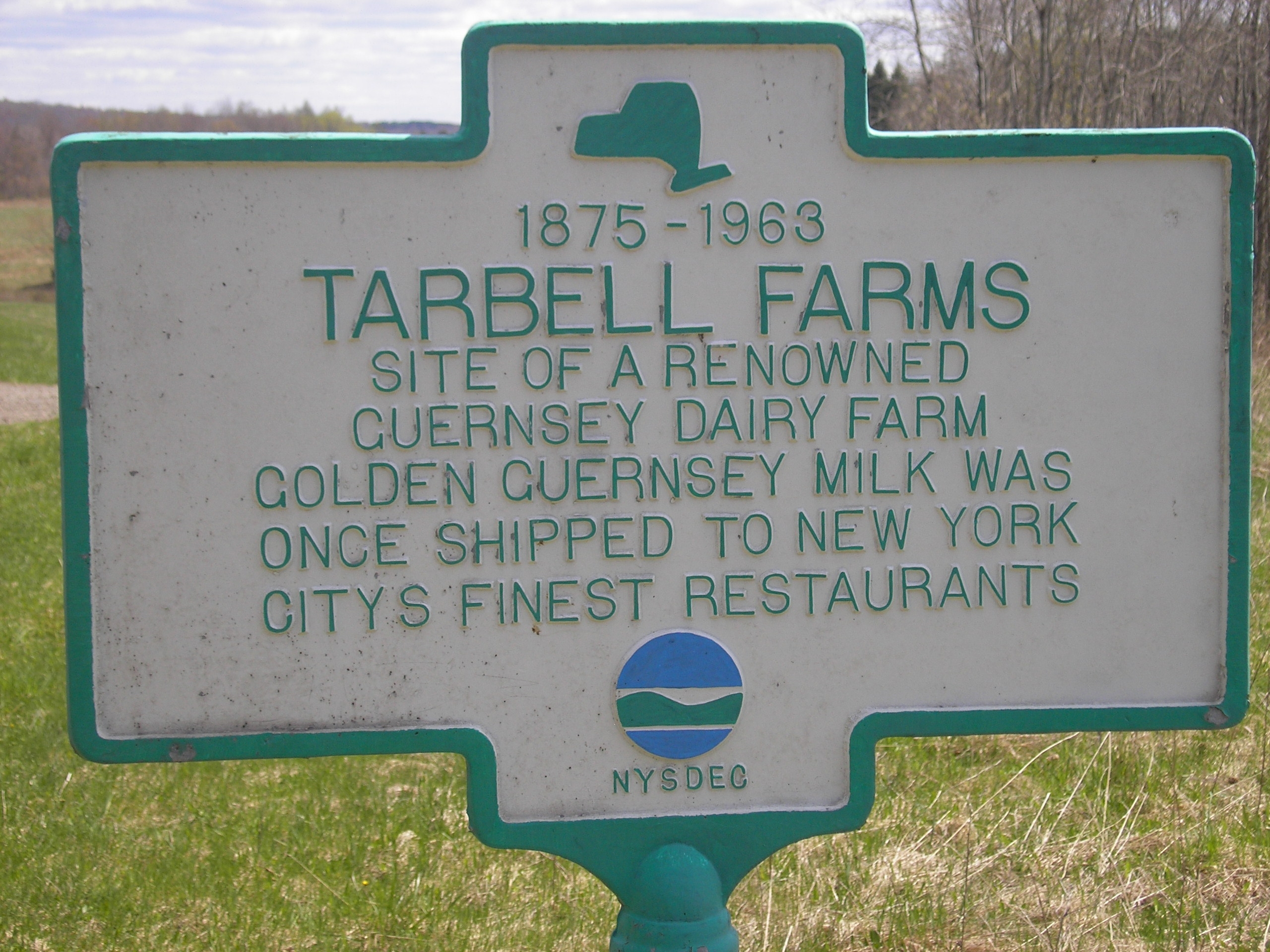 Historic marker of Tarbell Farms, 1875- 1963. Renowned Guernsey Dairy Farm. Golden Guernsey milk was once shipped to New York Cities finest restaurants.